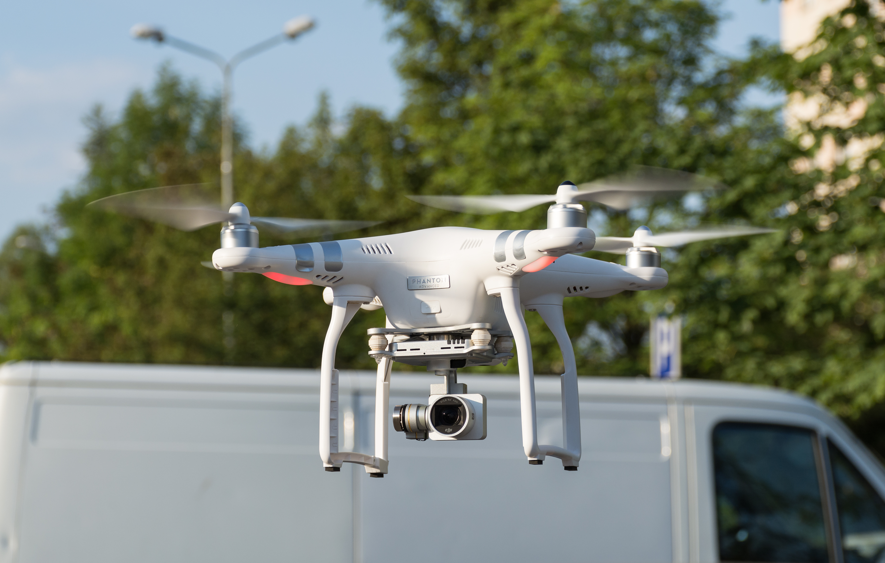 Dron DJI Phantom 3 Advanced